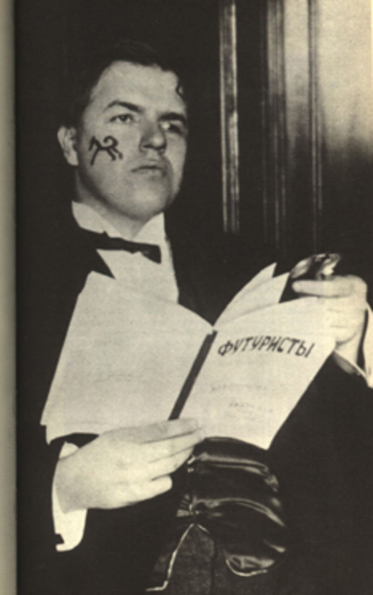 David Burliuk, Russian/Ukrainian/U. S. Futurist painter and poet